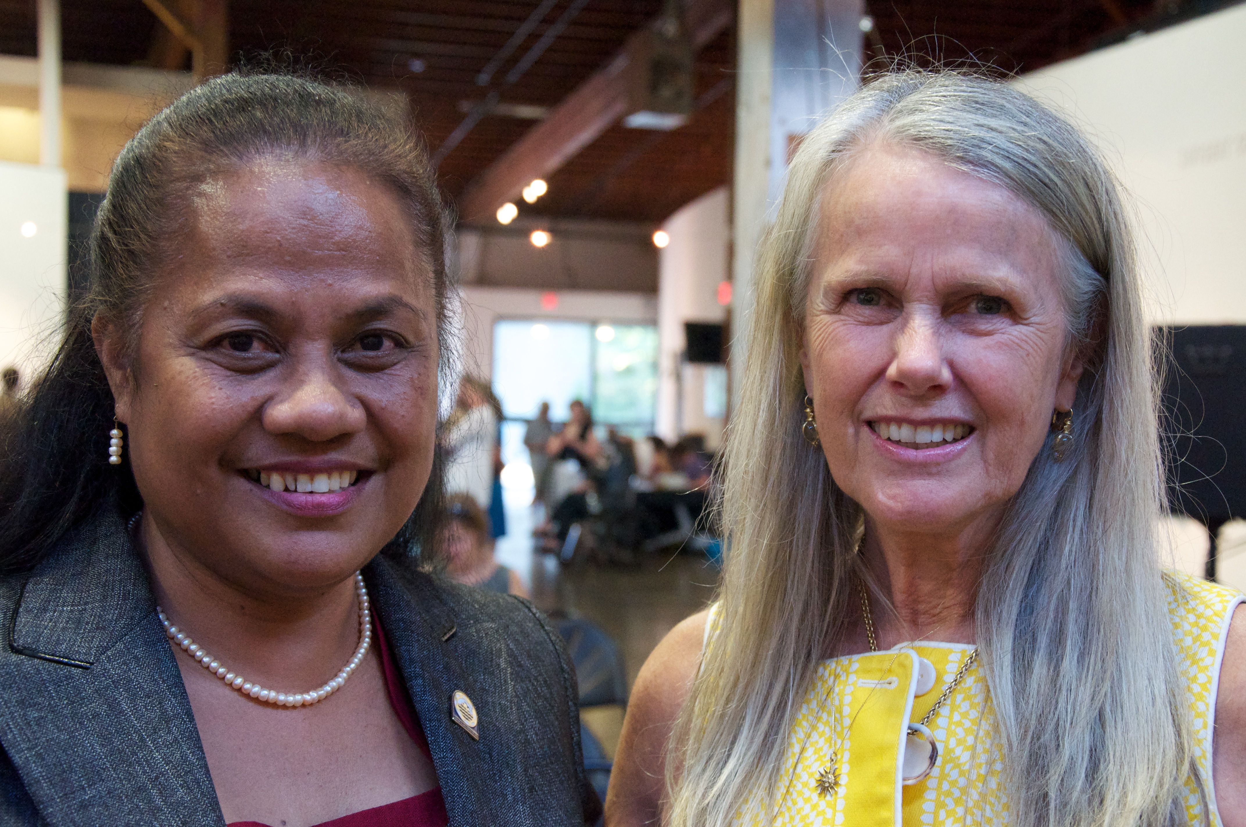 Nei Meme (on the left) is the present first lady of Kiribati. She is married to this country's current president Anote Tong.